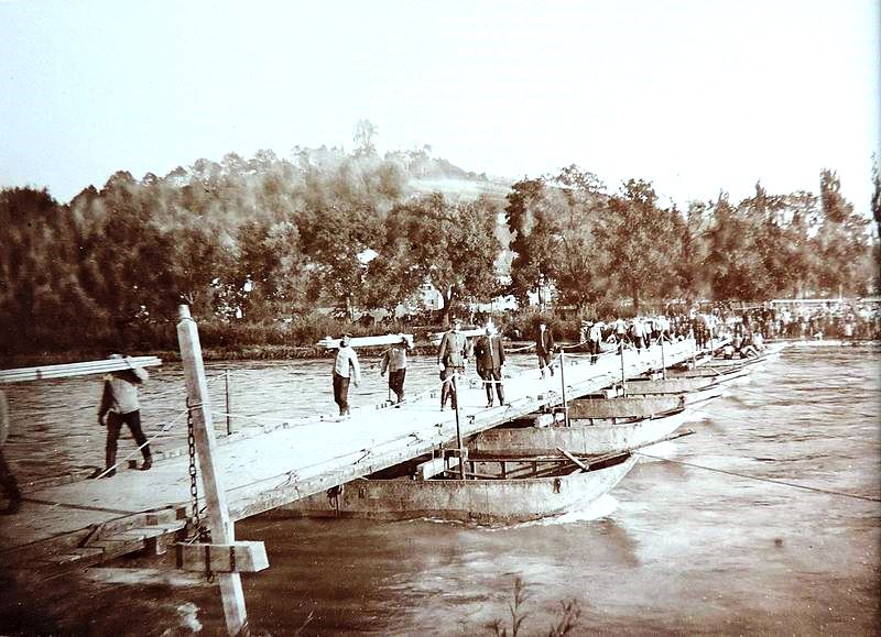 Historic military photos.